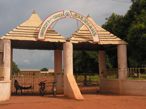 Photo of Main Entrance To University of Bahr El-Ghazal